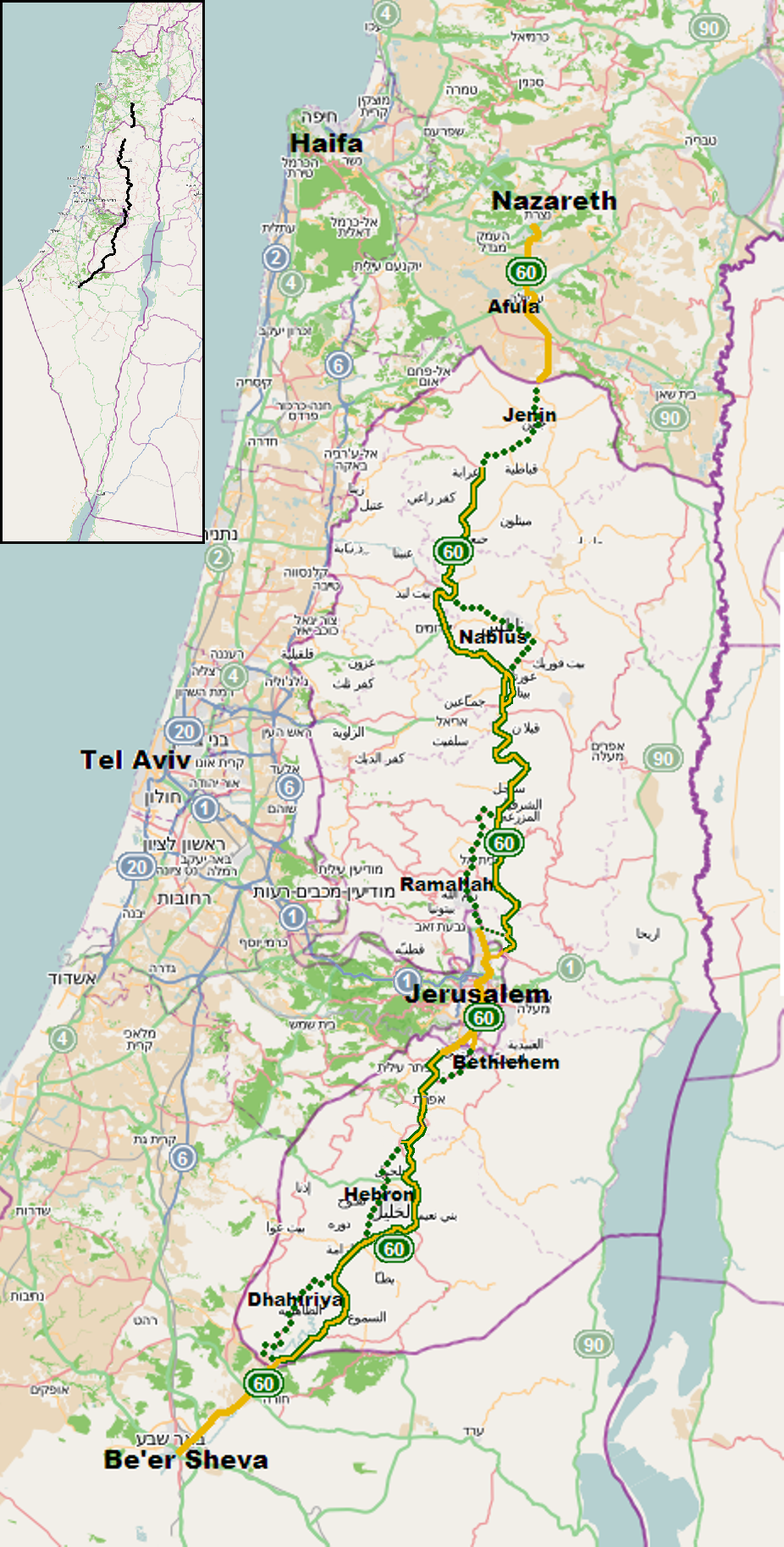 Israel Highway 60, highlightedYellow sections - yellow (Israeli) license plates only.Yellow/Green sections - Both yellow (Israeli) and green (Palestinian) license plates permitted.Green Dotted sections - green (Palestinian) license plates only.Dotted sections, no longer designated Route 60, indicate original route through West Bank cities (Dhahiriya, Hebron, Bethlehem, Ramallah, Nablus, Jenin) prior to construction of bypasses.No bypass has been built around Jenin.